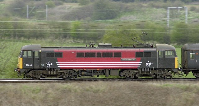 Train at Colwich Junction.